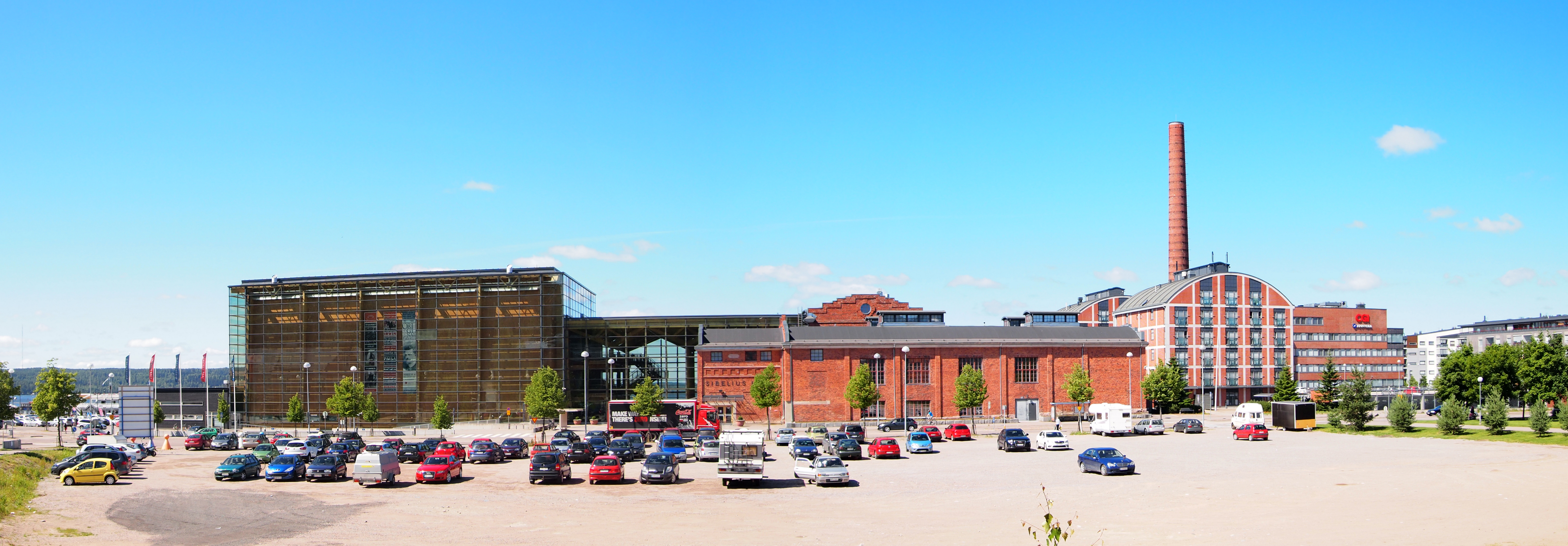 Sibelius hall in Lahti.